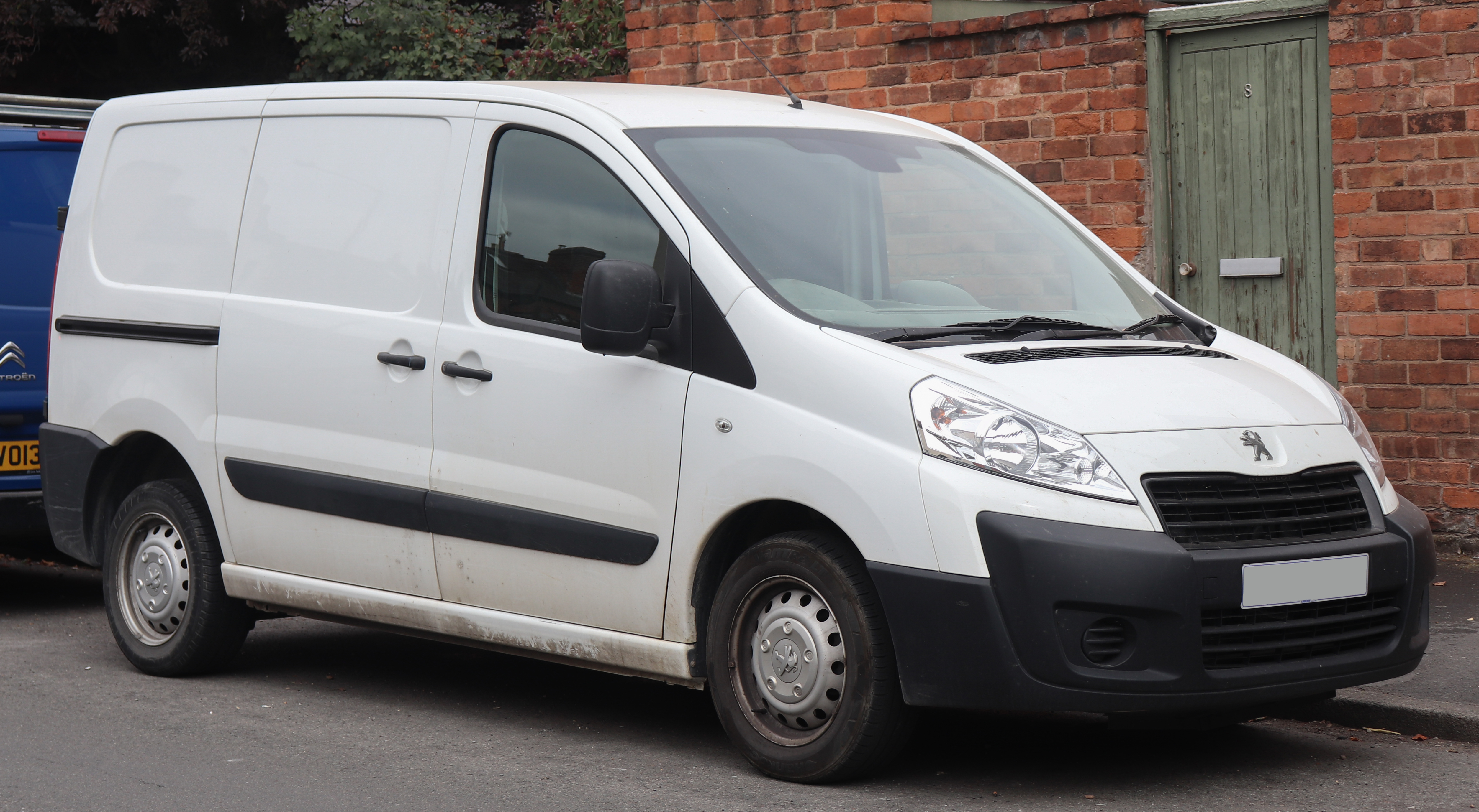 2015 Peugeot Expert 1000 L1H1 Professional 1.6 Taken in Leamington Spa